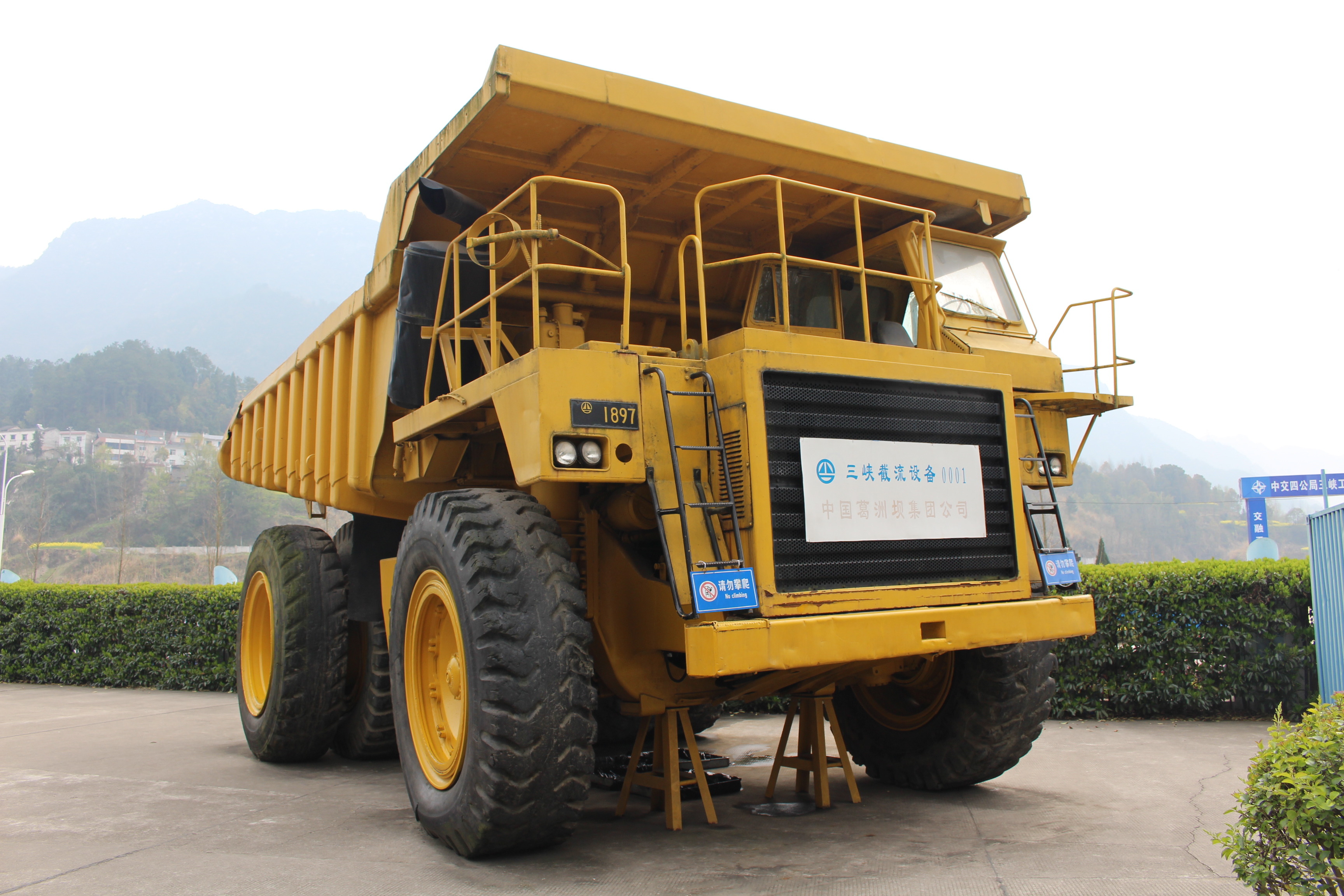 Truck for of transporting cement "pyramid" into the Yangtze River and damming the water.